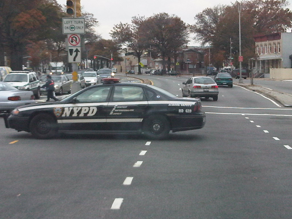 NYPD School Safety Chevrolet Impala police car photographed in NYC.